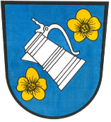 Coat of arms of the Kannawurf Municipality